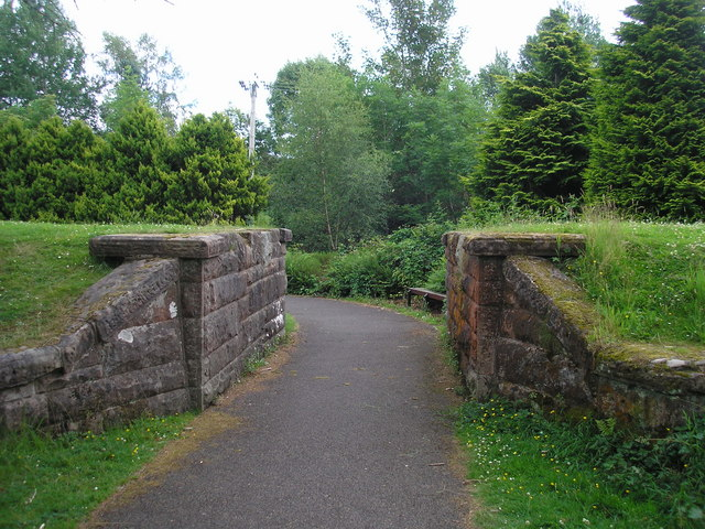 Remnants of the railway line to Moffat The view of the remains of a bridge on what was the single track branch line from Beattock to Moffat